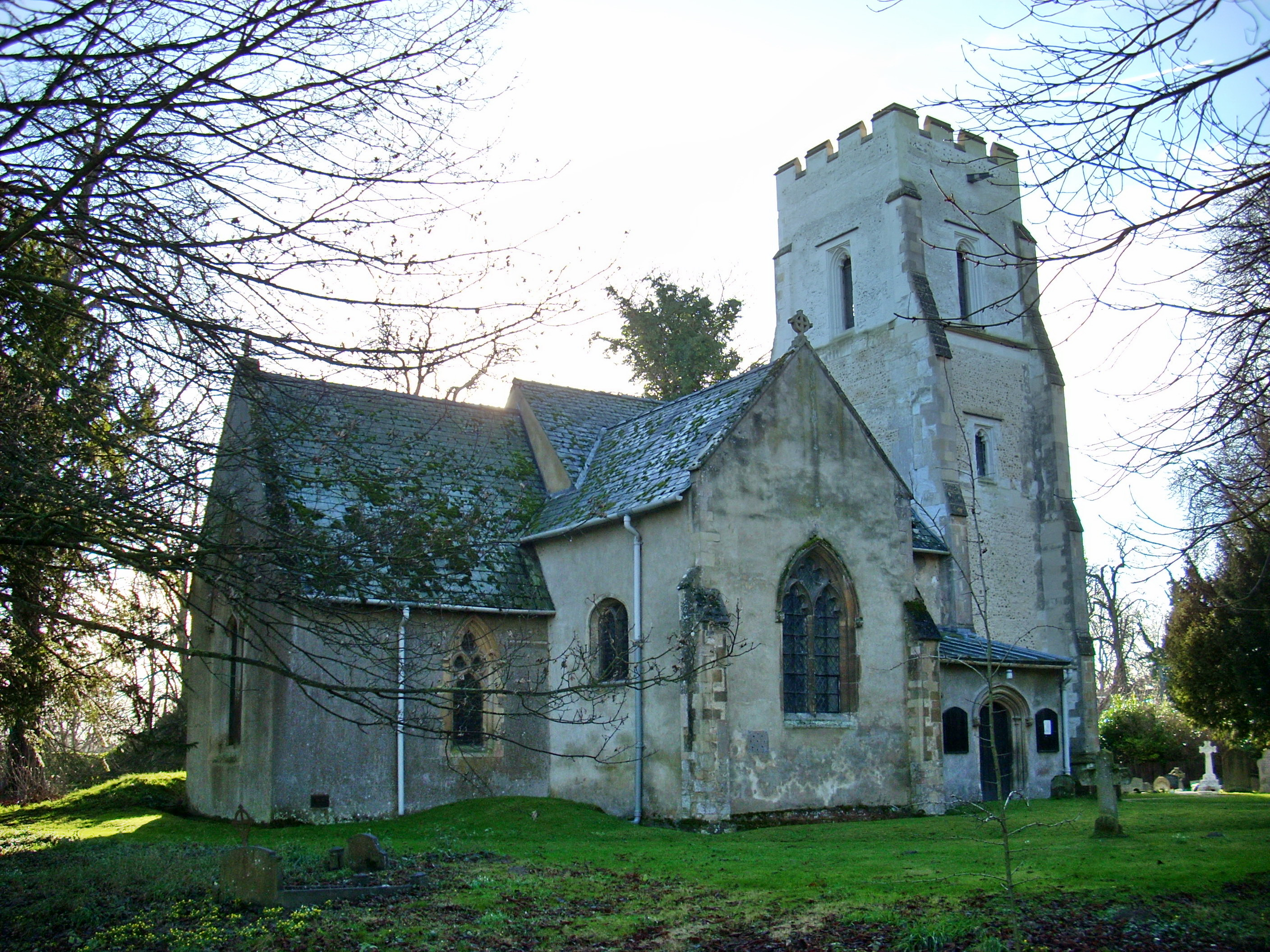 Church of St. Margaret in Newton, Cambridgeshire, England